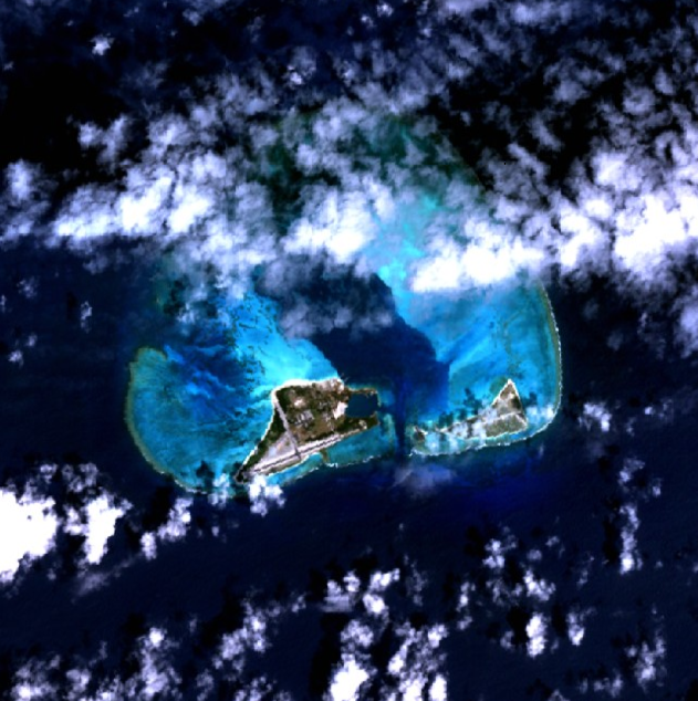 NASA NLT Landsat7 Satellite Image of Midway Atoll, Northwestern Hawaiian Islands